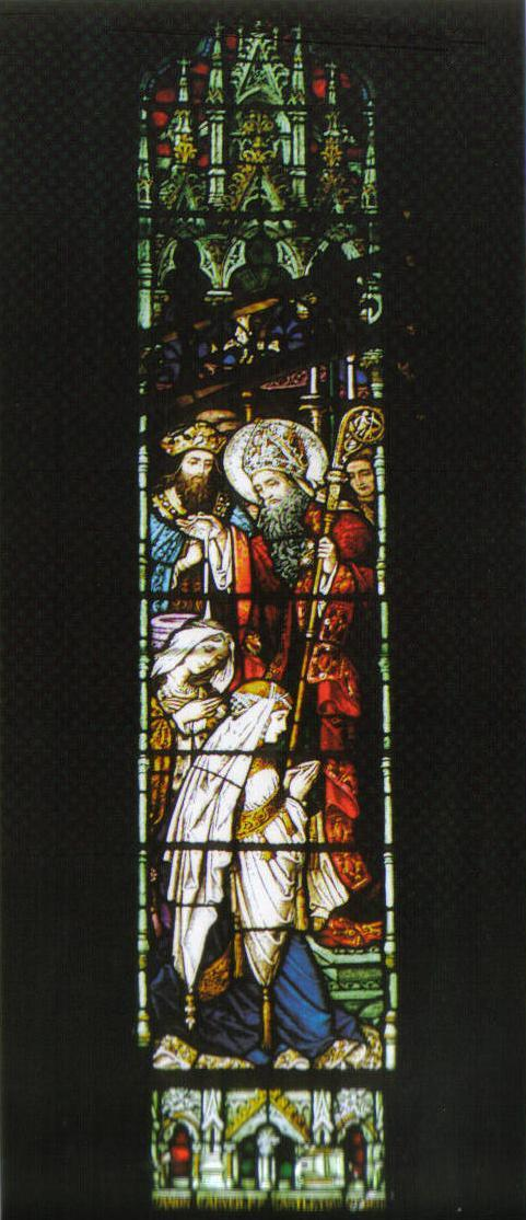 Photo taken by MacLeinin 2005